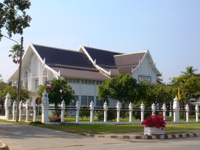 King Ramkhamhaeng National Museum, Sukhothai. Taken by myself in December, 2010